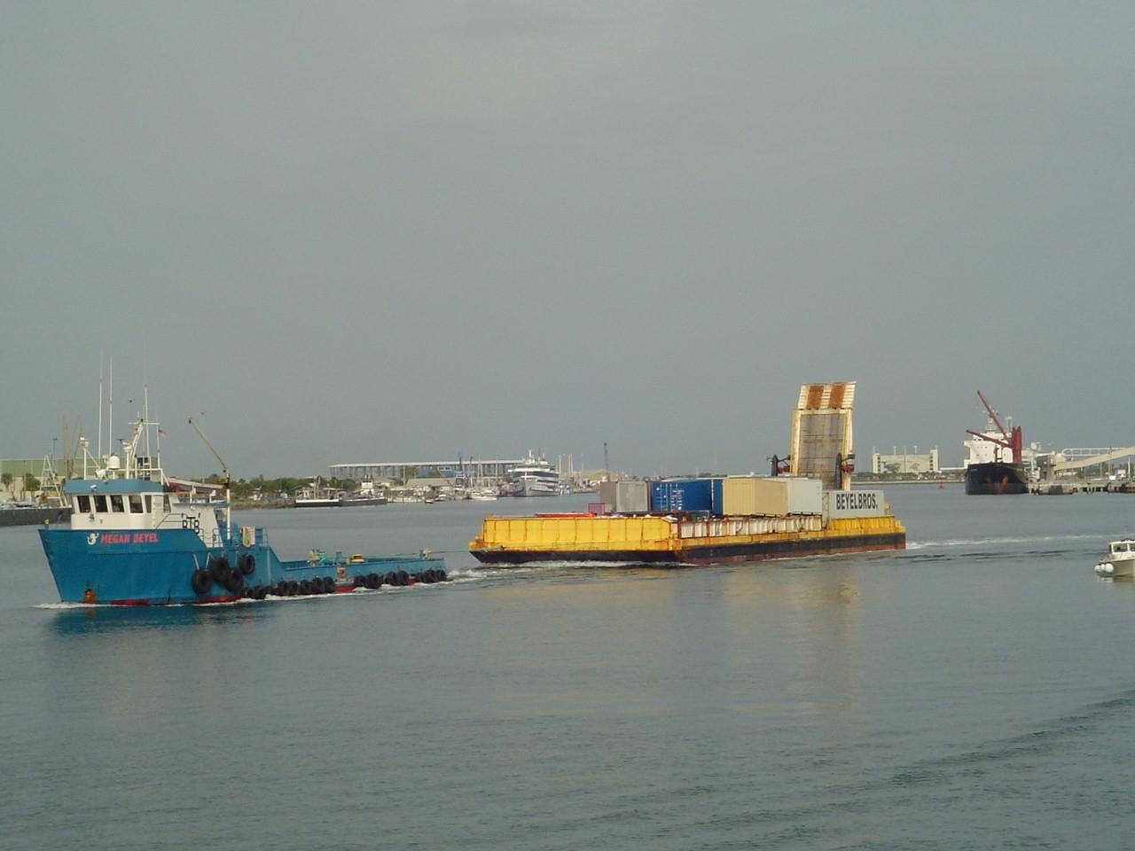 Megan Beyel moves a barge up river